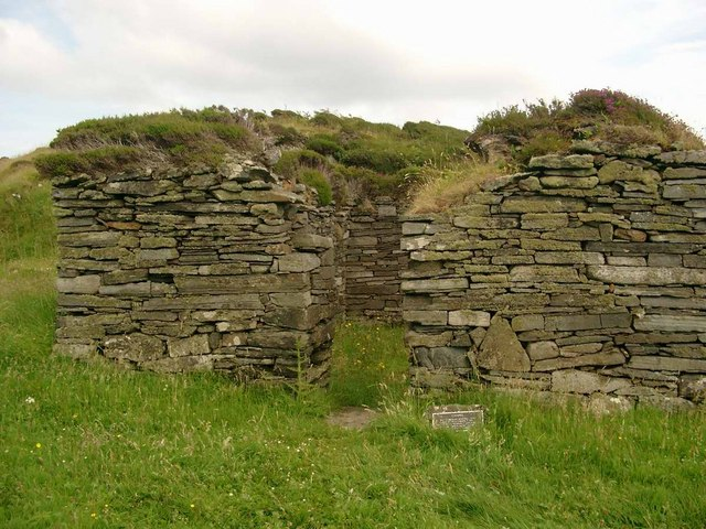 The monastery chapel, Eileach an Naoimh, Garvellachs, Scotland, probably dating from the 9th century